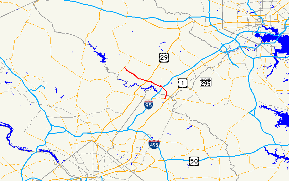 Map of Maryland Route 216